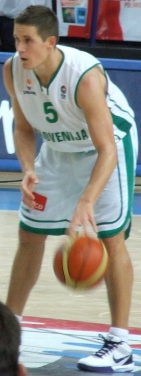 Slovenia vs. Serbia at EuroBasket 2009.